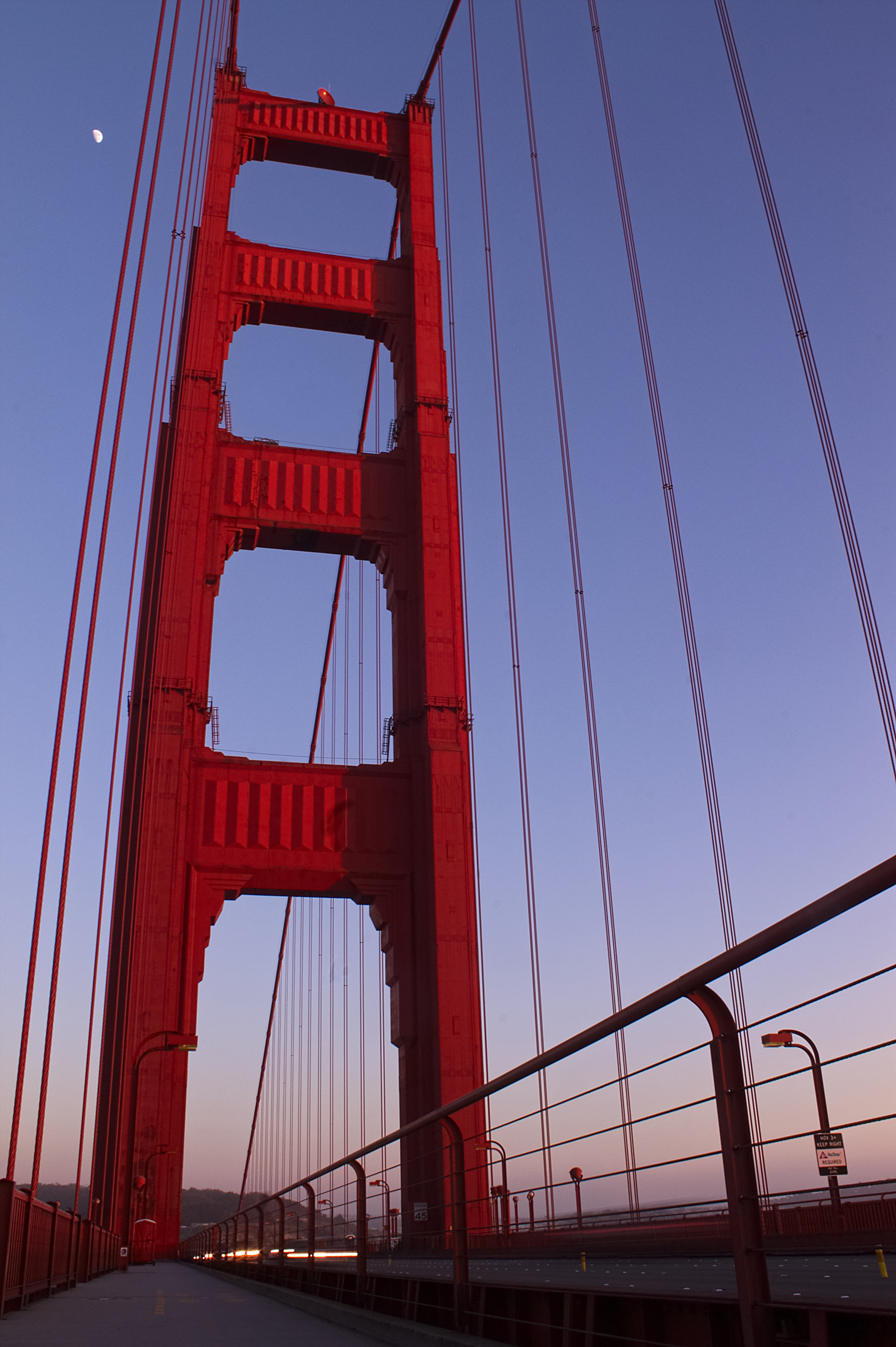 Golden Gate Bridge tower and walkway.